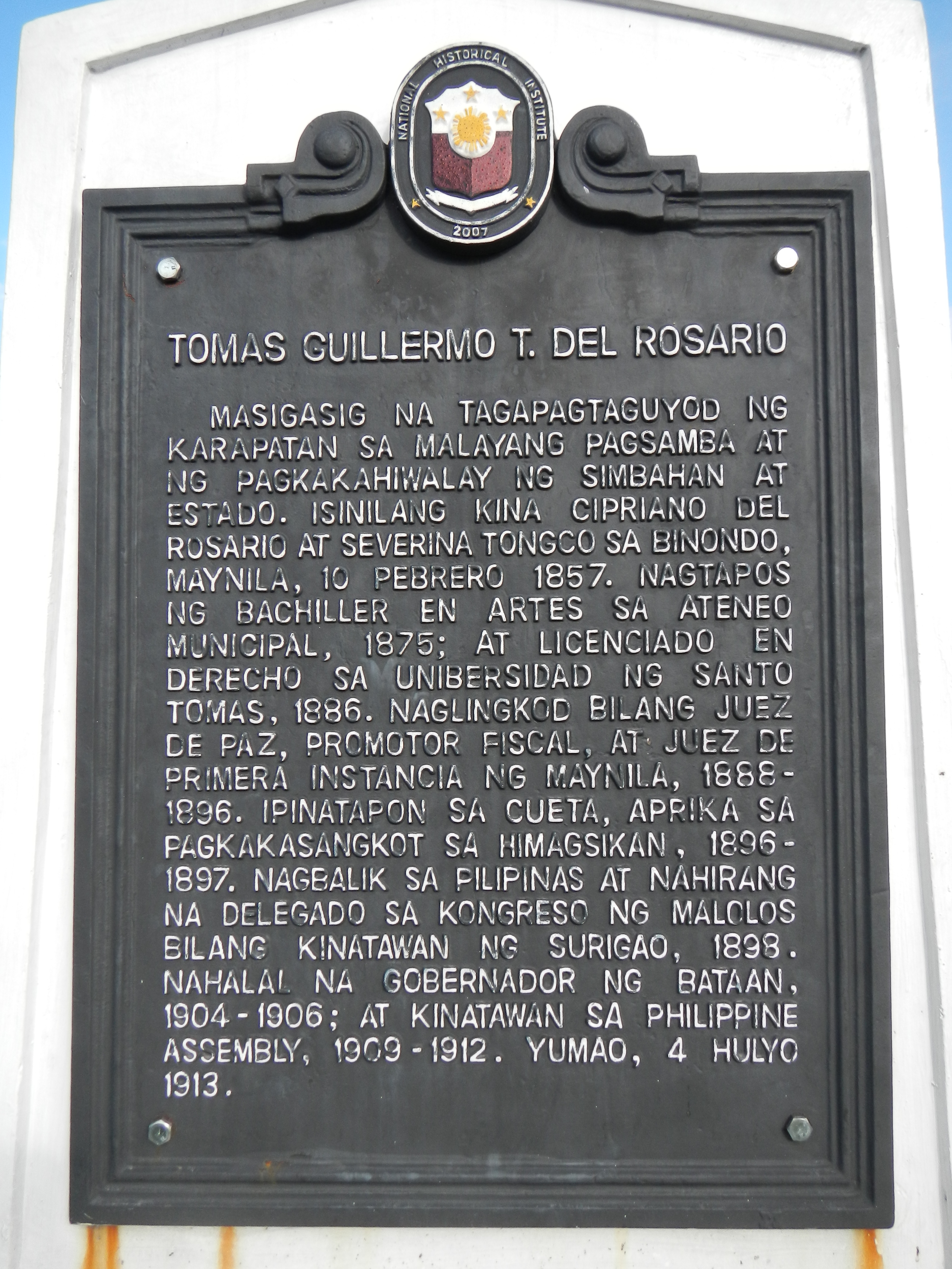 Historical marker installed by the National Historical Institute (now the National Historical Commission of the Philippines) for Tomás del Rosario.